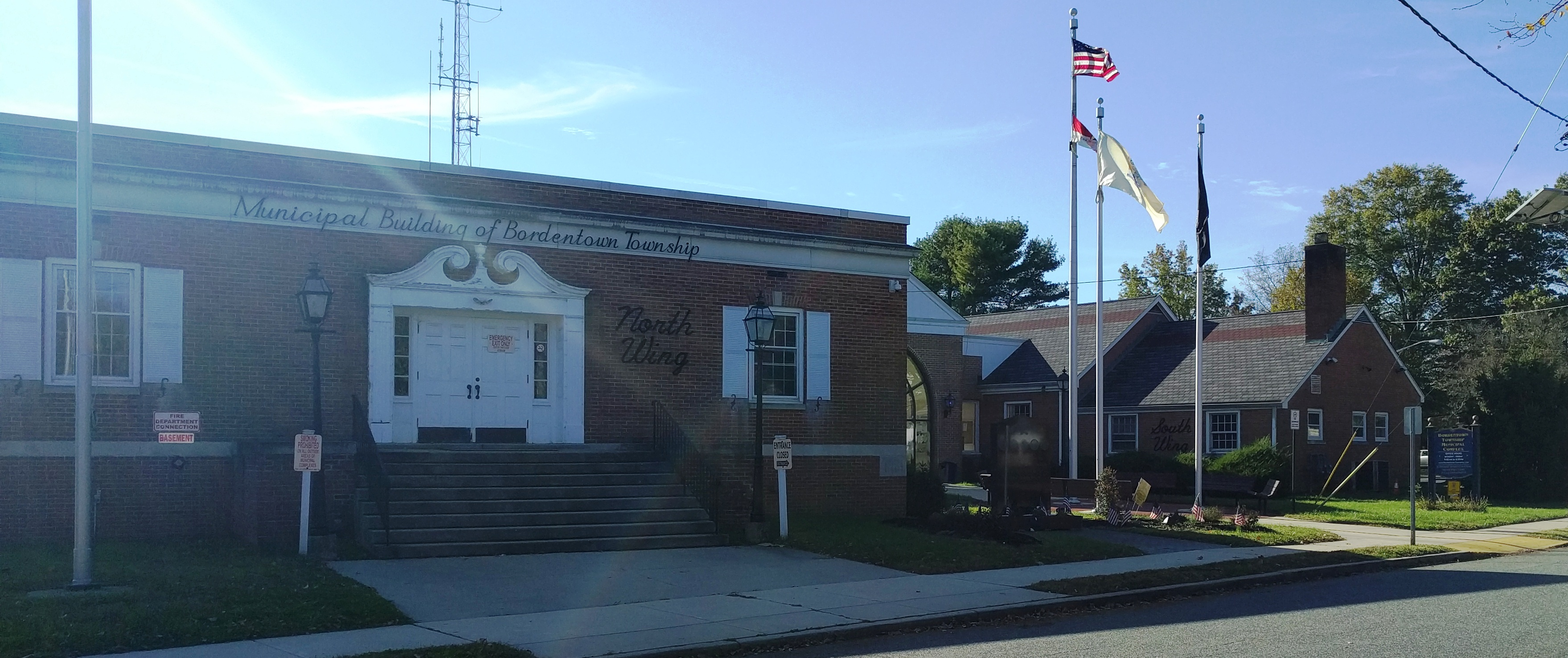 Photo showing the front of the Bordentown Township Municipal Building at 1 Municipal Drive in Bordentown Township, New Jersey.